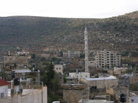 The village of Ein 'Arik outside of Ramallah, Palestine. The vilage's Mosque has the tallest minaret in Palestine at 60 meters tall.